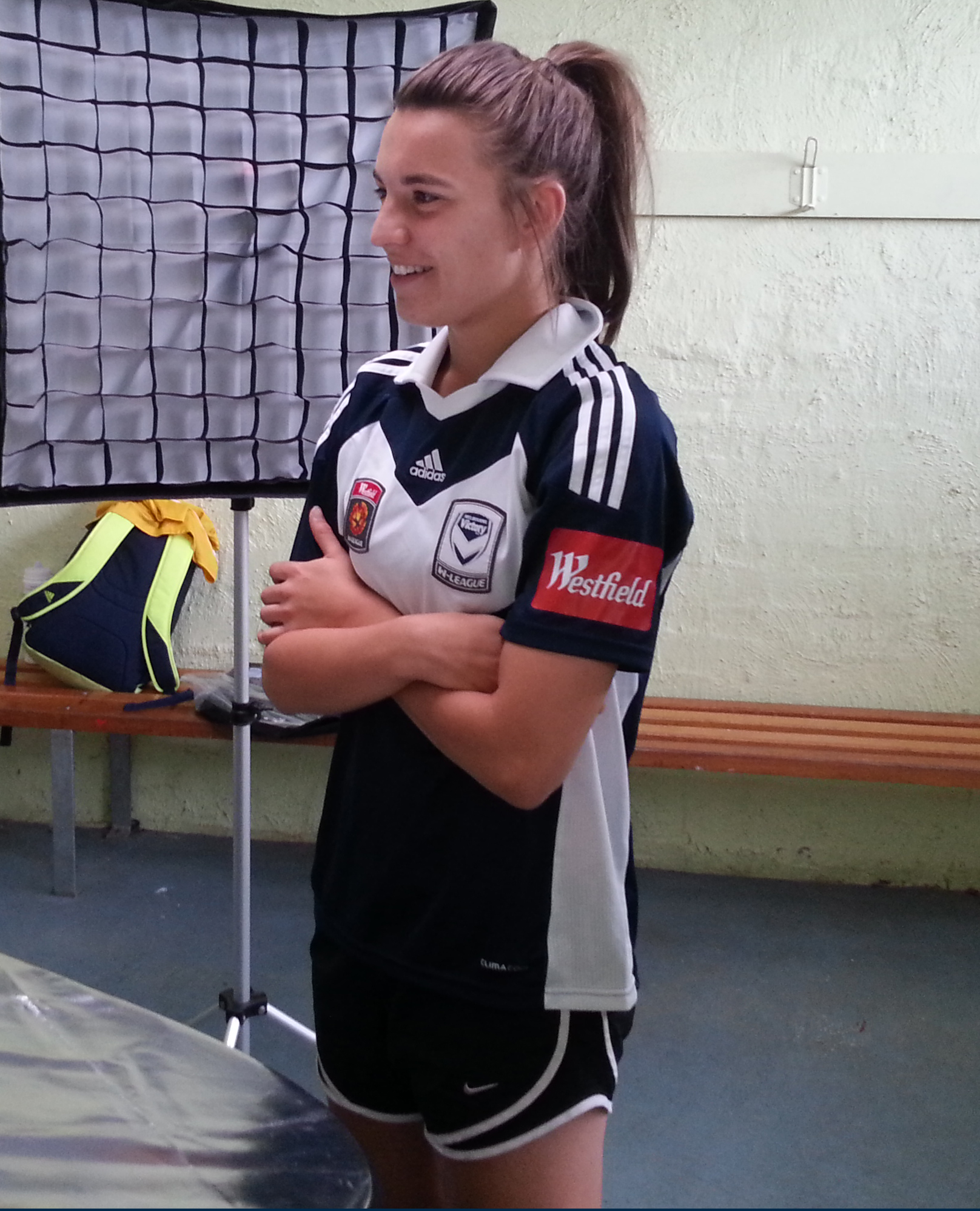 Stephanie Catley of Melbourne Victory Women relaxes before training.